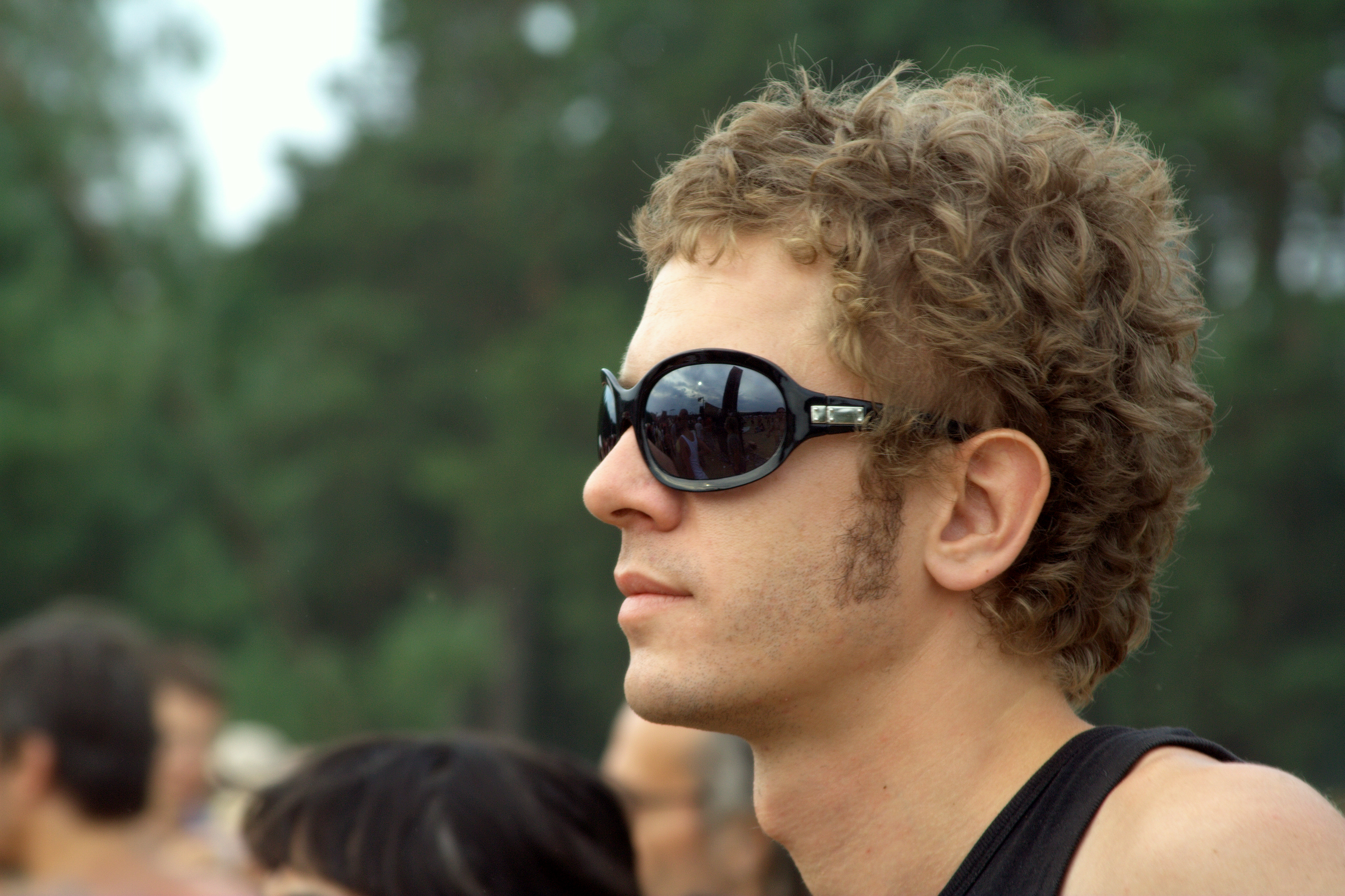 At the Nation of Gondwana Open Air 23.07.2006.